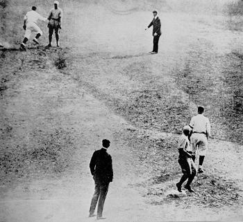 This is a photo of Bill Wambsganss completing an unassisted triple play during the 1920 World Series, in Game 5 on October 10. I scanned and shrank this photo from The World Series, by Cohen, Neft, Johnson and Deustch, which was printed by The Dial Press in 1976. The book credited Underwood and Underwood with owning the copyright at that time. This photo also appears in The Glory of Their Times in the article on Wamby, as well as other books about the World Series. The photo was presumably taken from the upper deck at League Park in Cleveland, a little past third base. Third is in the lower right corner, and second is near the upper left corner, almost out of frame.